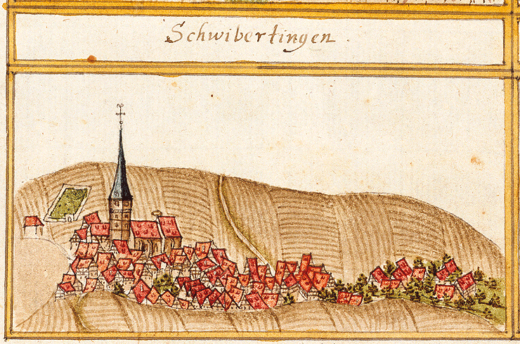 View of Schwieberdingen from the forest register books created by Andreas Kieser